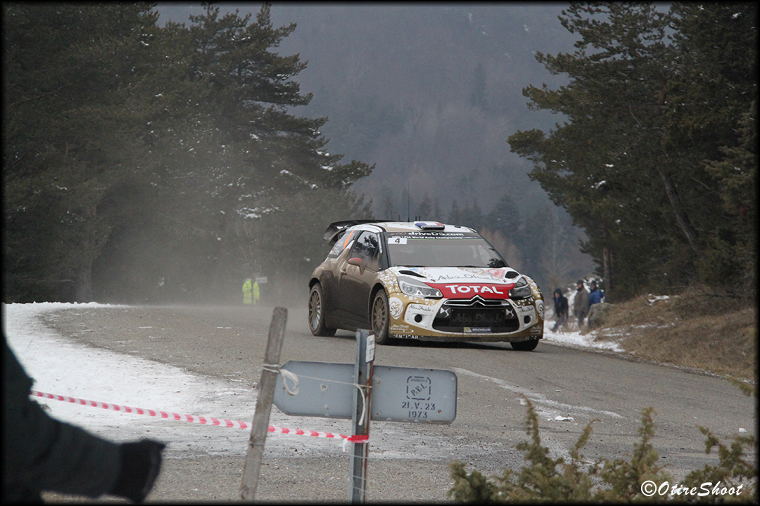 Sébastien Loeb at Monte-Carlo rally 2015 - SS8